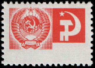 Stamp of the Soviet Union, 1969, CPA 3417А.